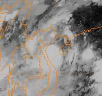 Tropical Storm Amy of the 1994 Pacific typhoon season on July 30 at 00Z, taken from the GMS-4 satellite. Cropped from original image.